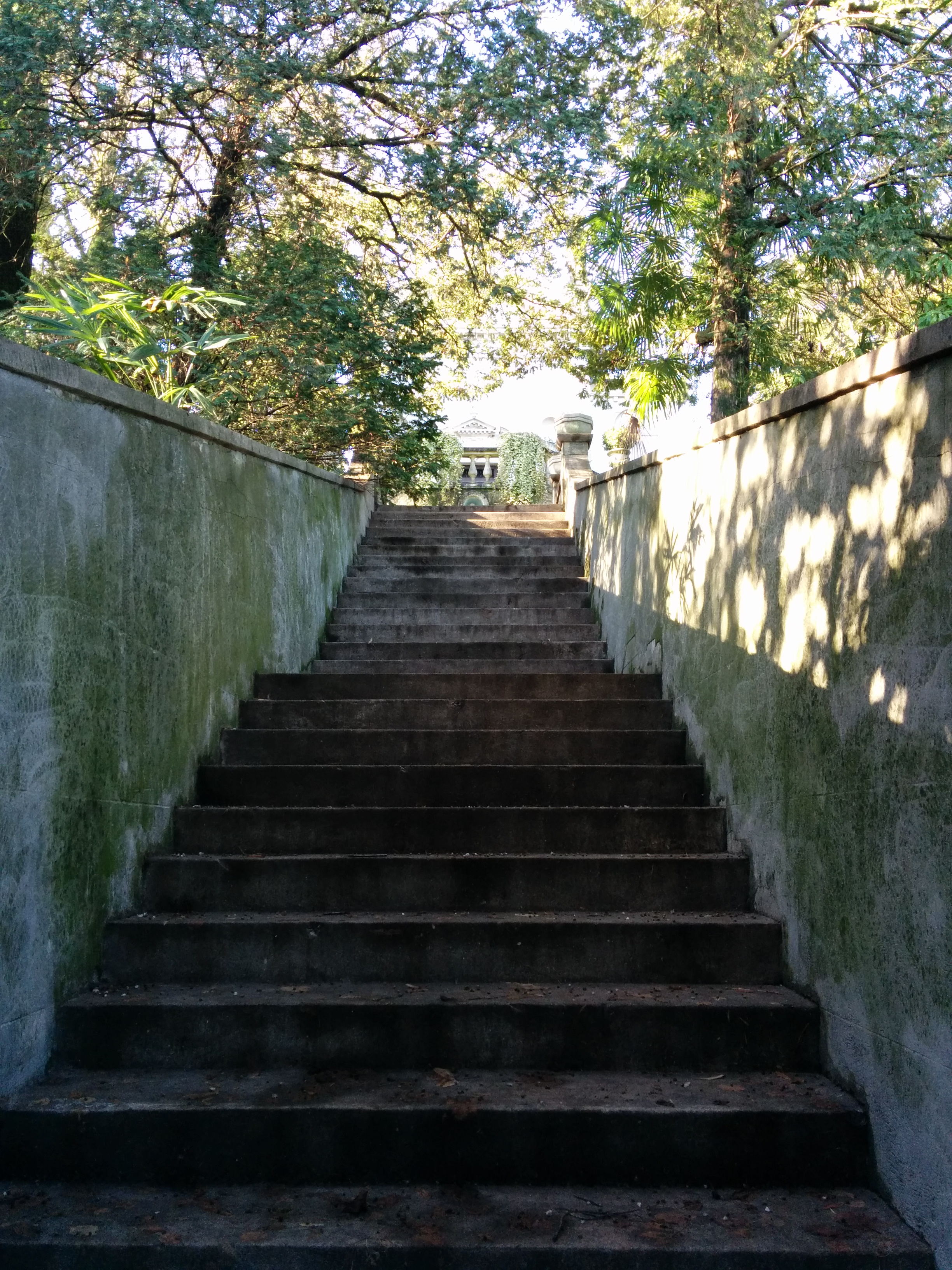 Oratorio di Sant'Antonio's stairs, Costabissara